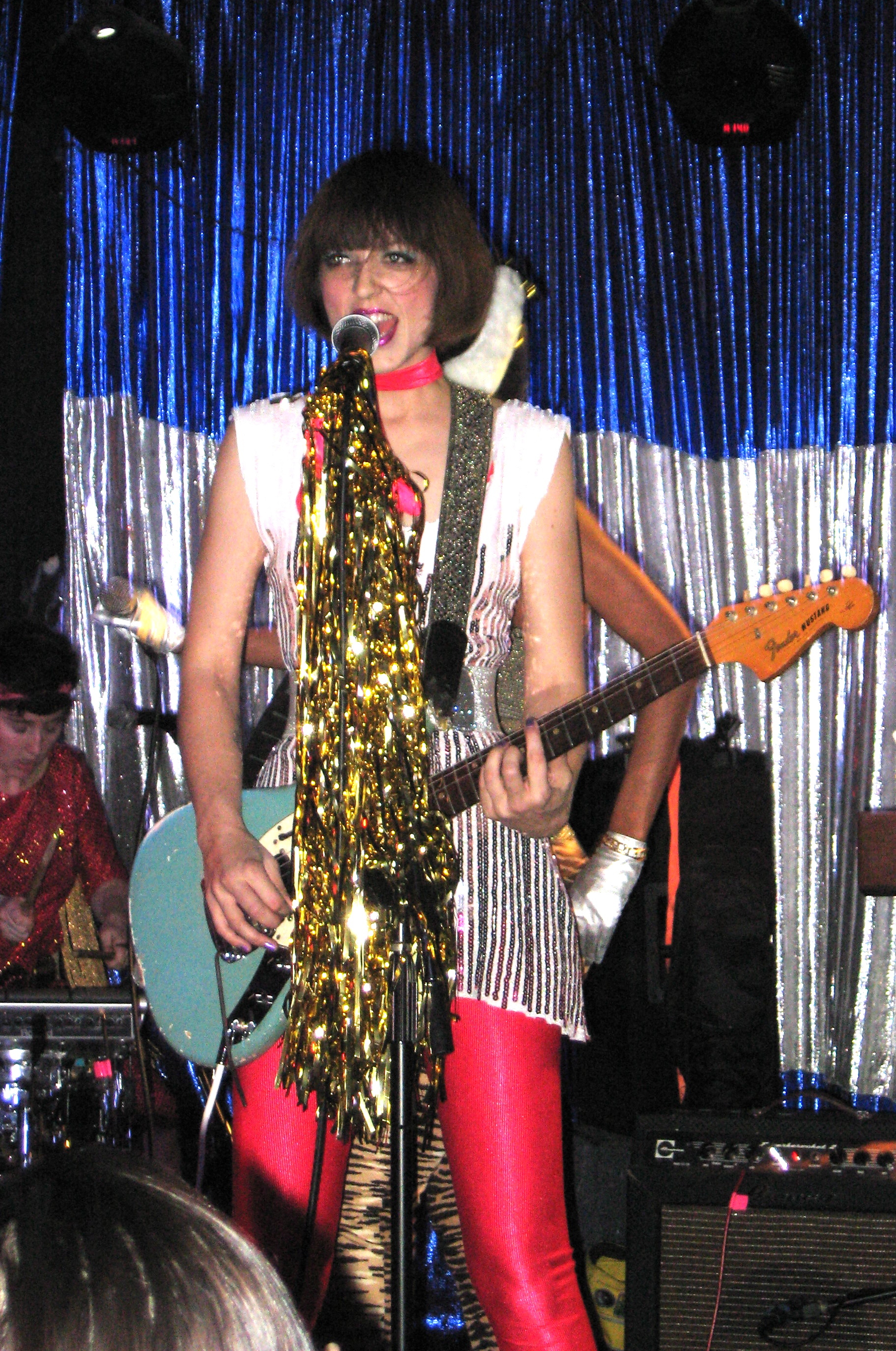 Electrocute performing at Spaceland on February 17, 2008.